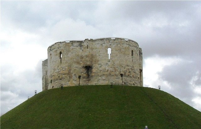 Clifford's Tower From the carpark. Keep of the castle dating from the time of Edward I (on the site of an earlier Norman fortress), and scene of the Massacre of the Jews (1190). See History_of_the_Jews_in_England .